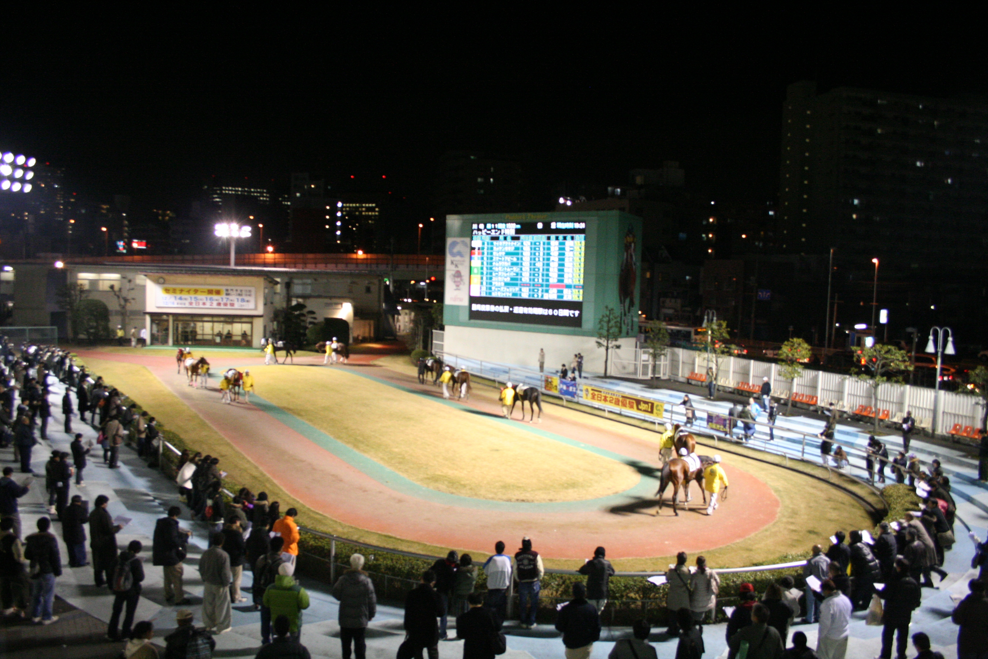 The paddock in Kawasaki Racecourse